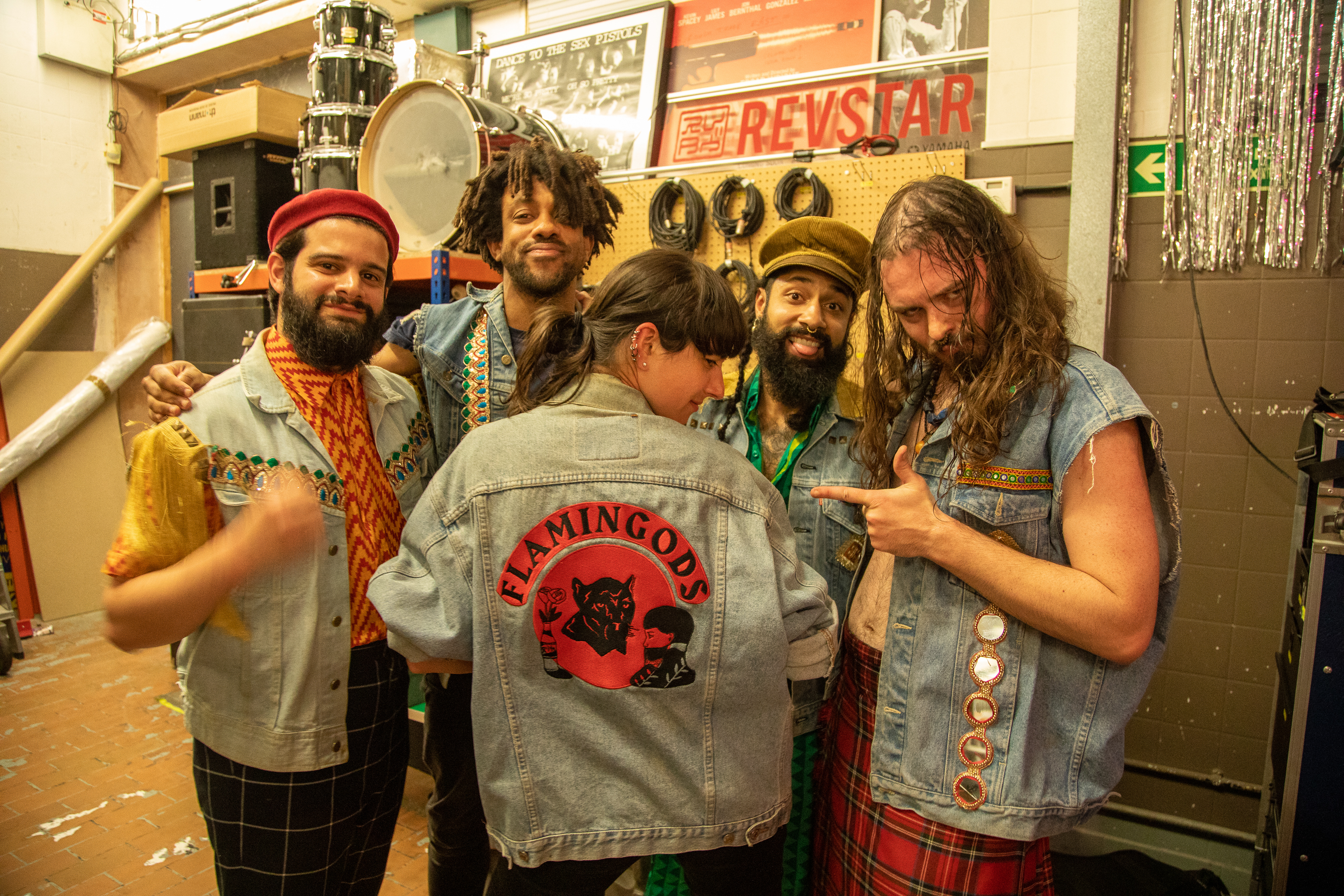 Flamingods at Rough Trade East